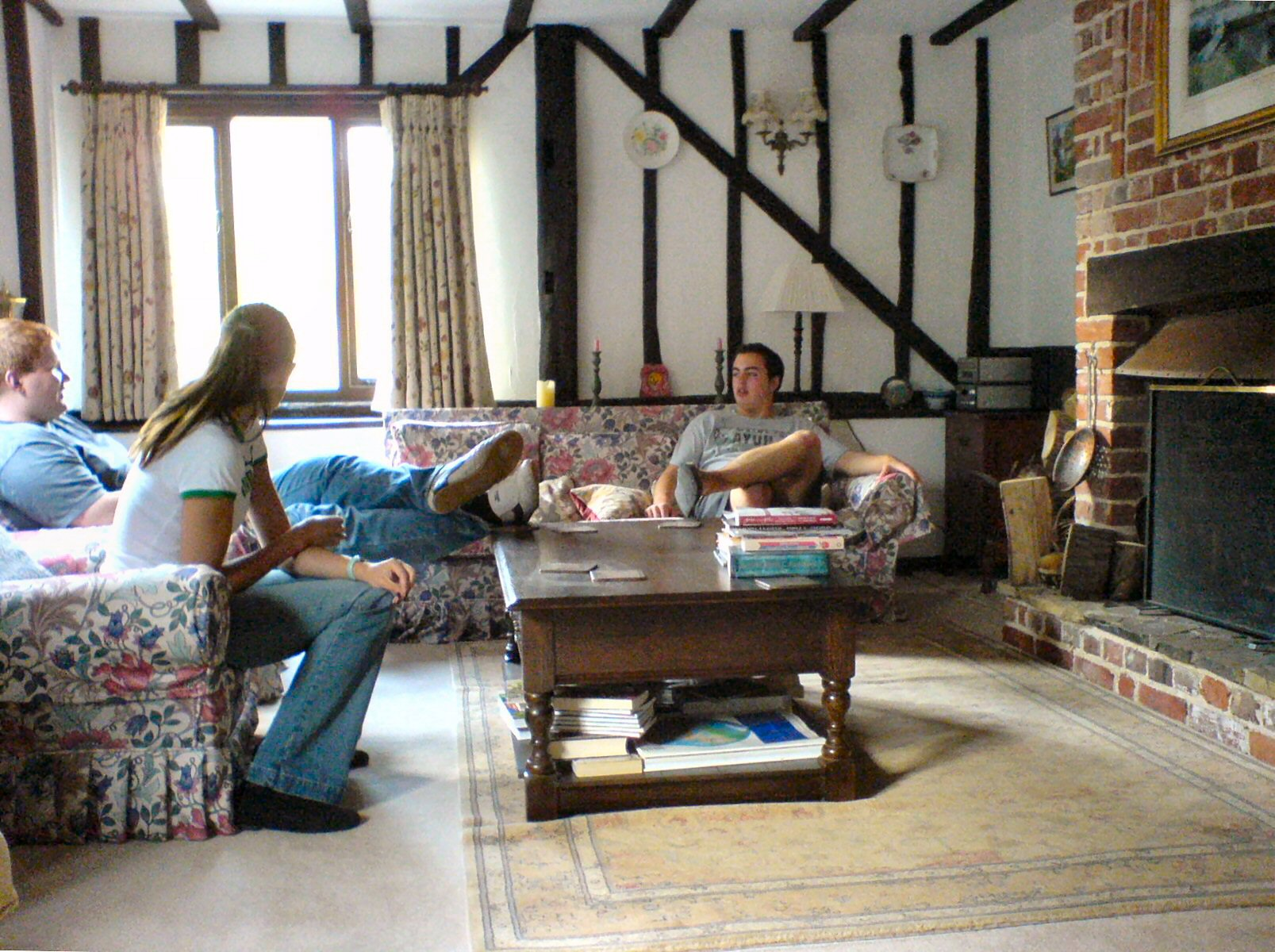 A sitting room in the United Kingdom. One uncouth person has placed his shoe-clad feet on the tabletop. Original picture taken by Edward Govan. Image rotated, cropped and enhanced by DWaterson.